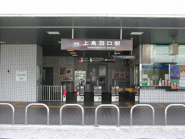 This photo is the Kamitobaguchi station ,Kinki-Nippon Rail Road (KINTETSU), Kyoto City, Kyoto Pref.